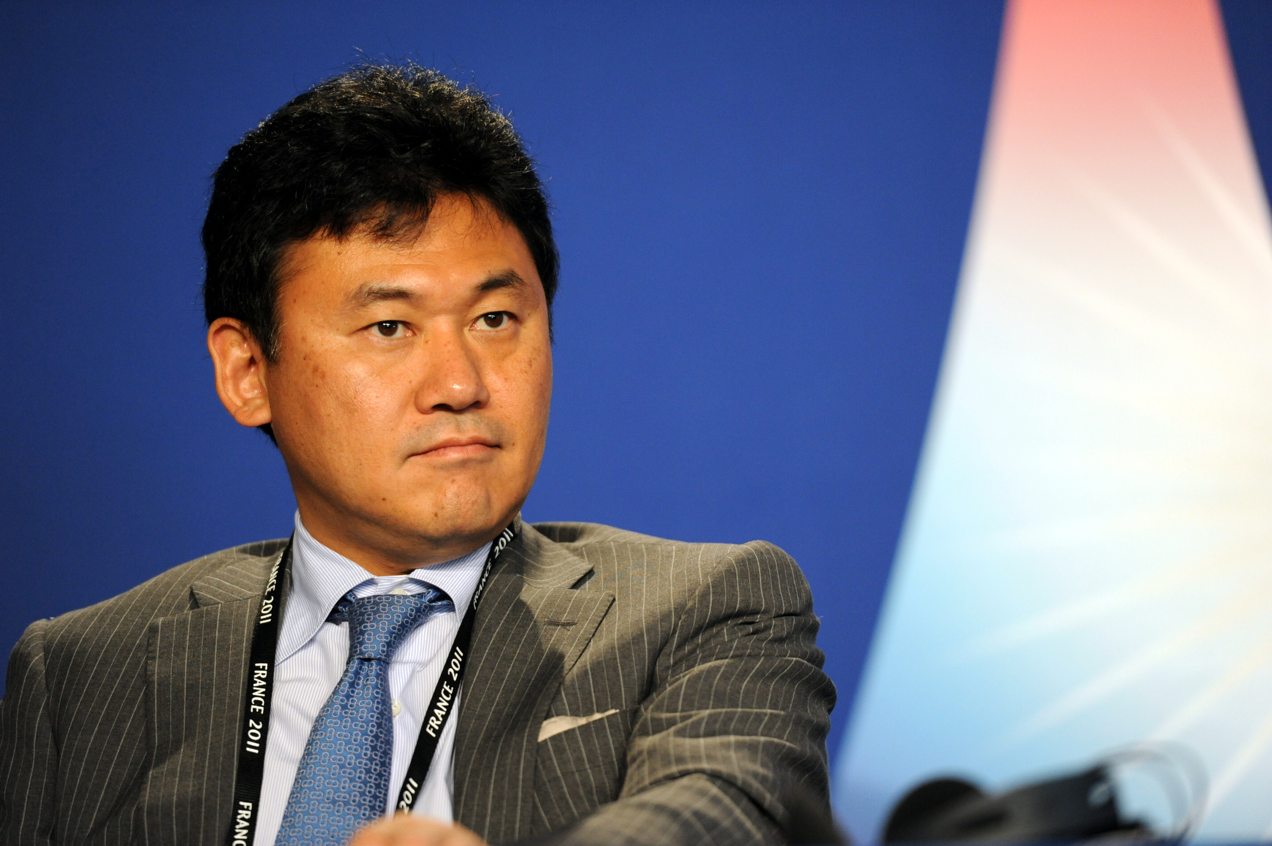 Hiroshi Mikitani, CEO of Rakuten, at the press conference about the e-G8 forum during the 37th G8 summit in Deauville, France.